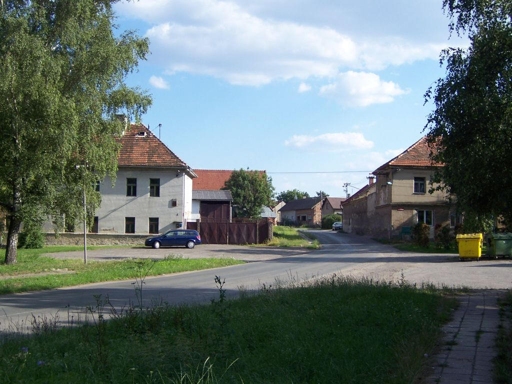 Štolmíř, village square